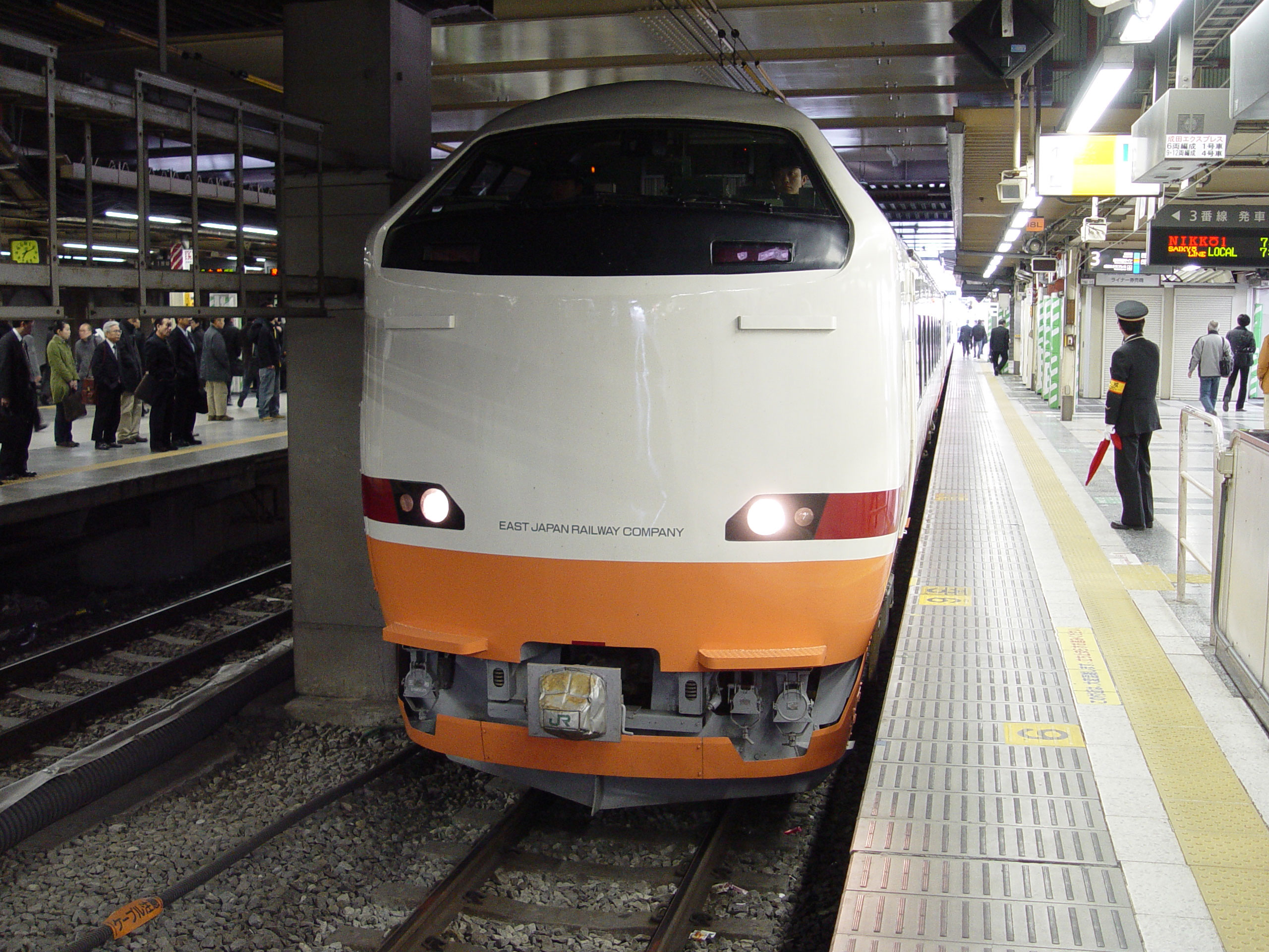 JNR 485 train as Nikko 1, at Shinjuku Station